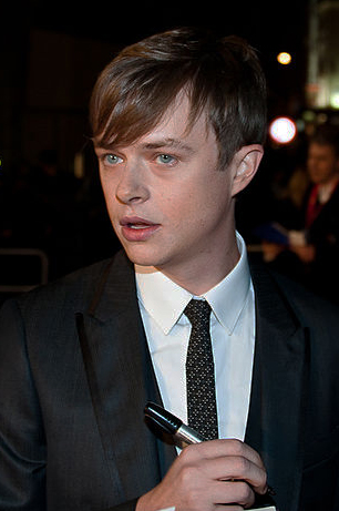 Dane DeHaan at the screening of Kill Your Darlings (2013) during the 57th BFI London Film Festival at Odeon West End on October 17, 2013 in London, England.